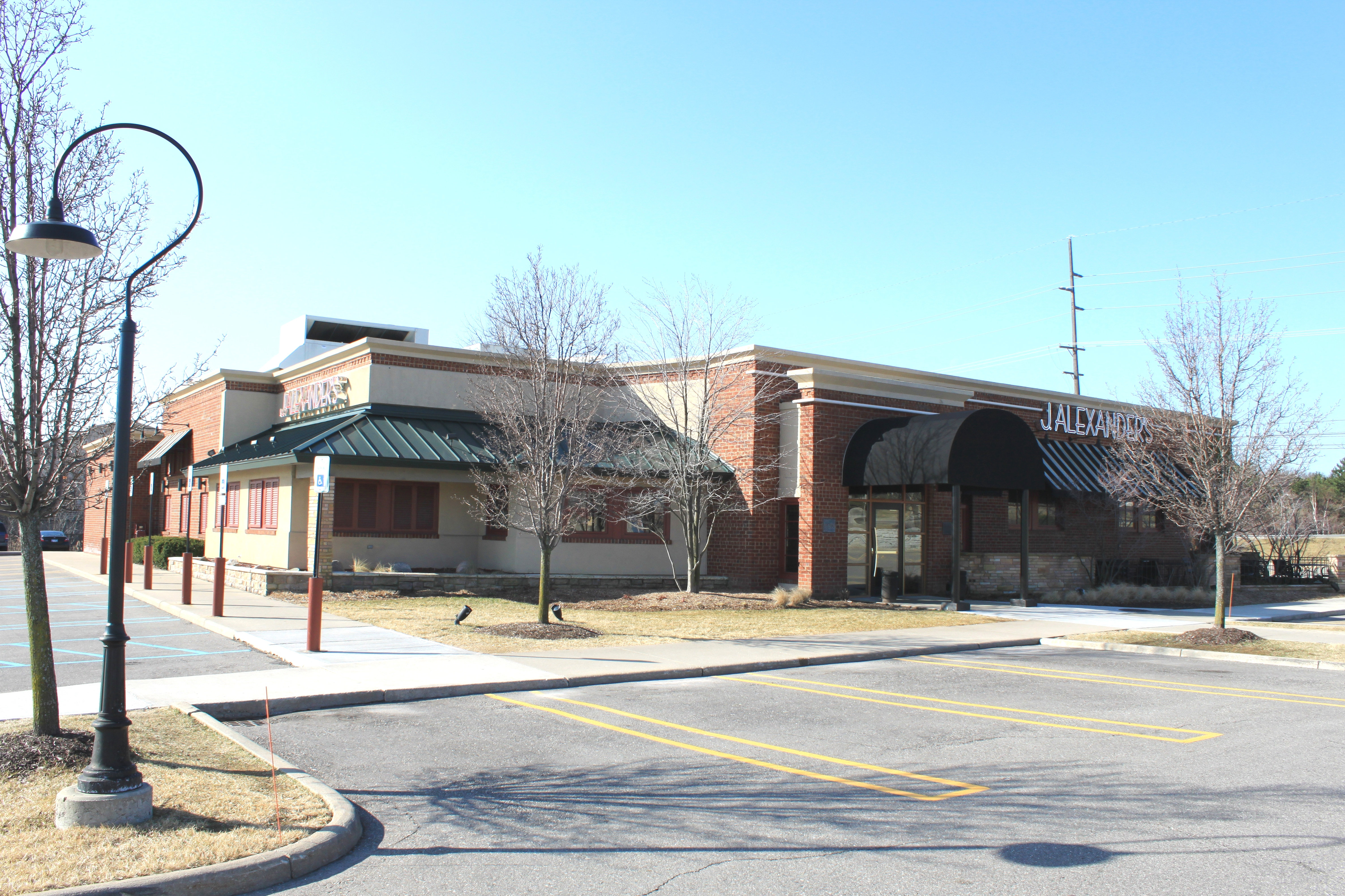 J. Alexander's restaurant, 19200 Haggerty Road, Livonia, Michigan.